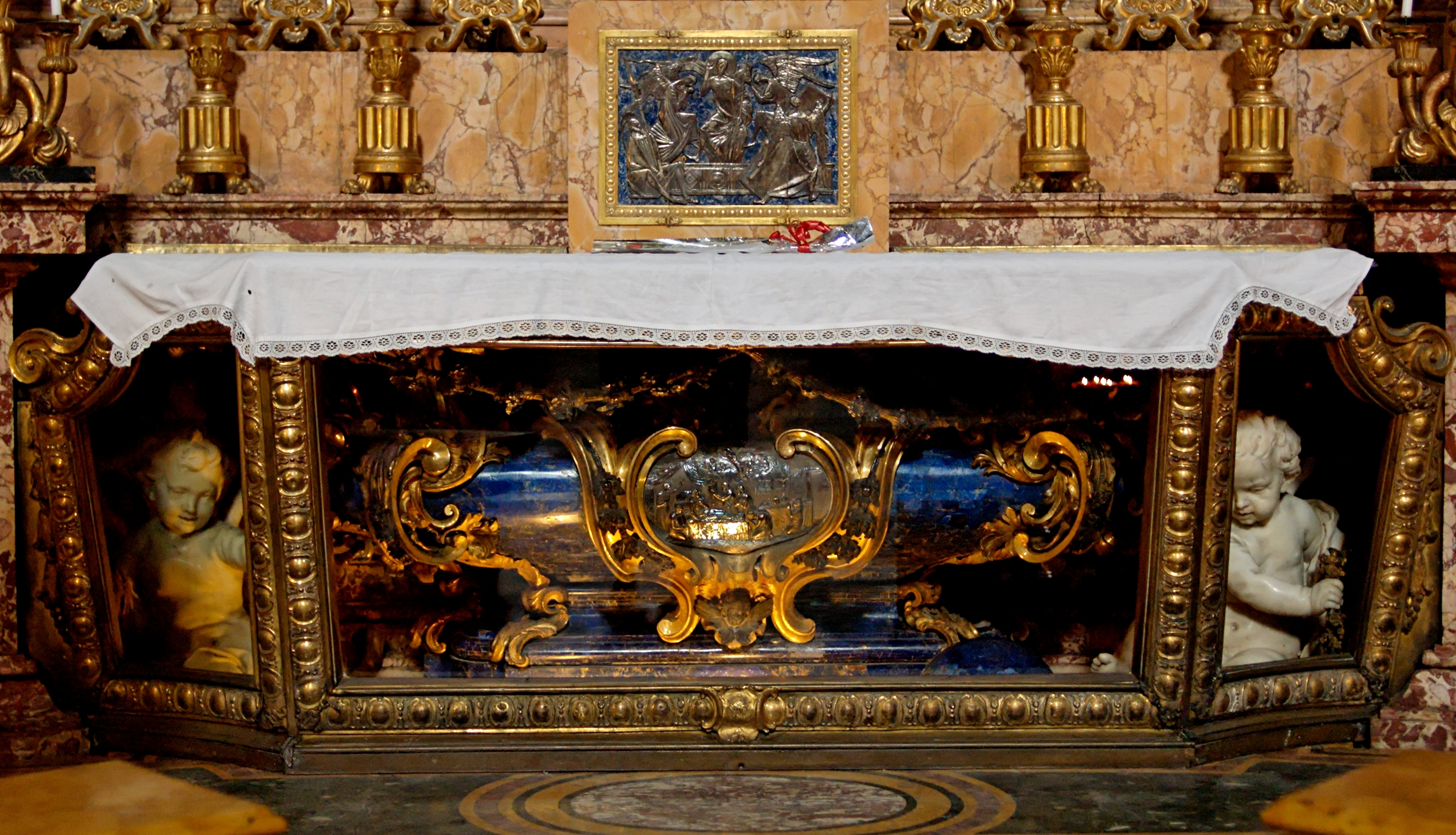 Tomb of St. Aloysius Gonzaga. Sant'Ignazio, Rome, Italy.